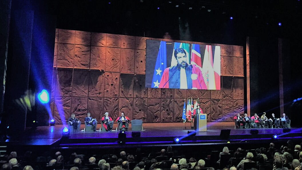 Andreas Kaplan - Convention center Paris